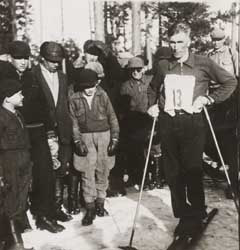 4.4.-36 Picture of Tervon winter sports days. Wikipedia:Kalle Jalkanen, 30 km through course, the winner.